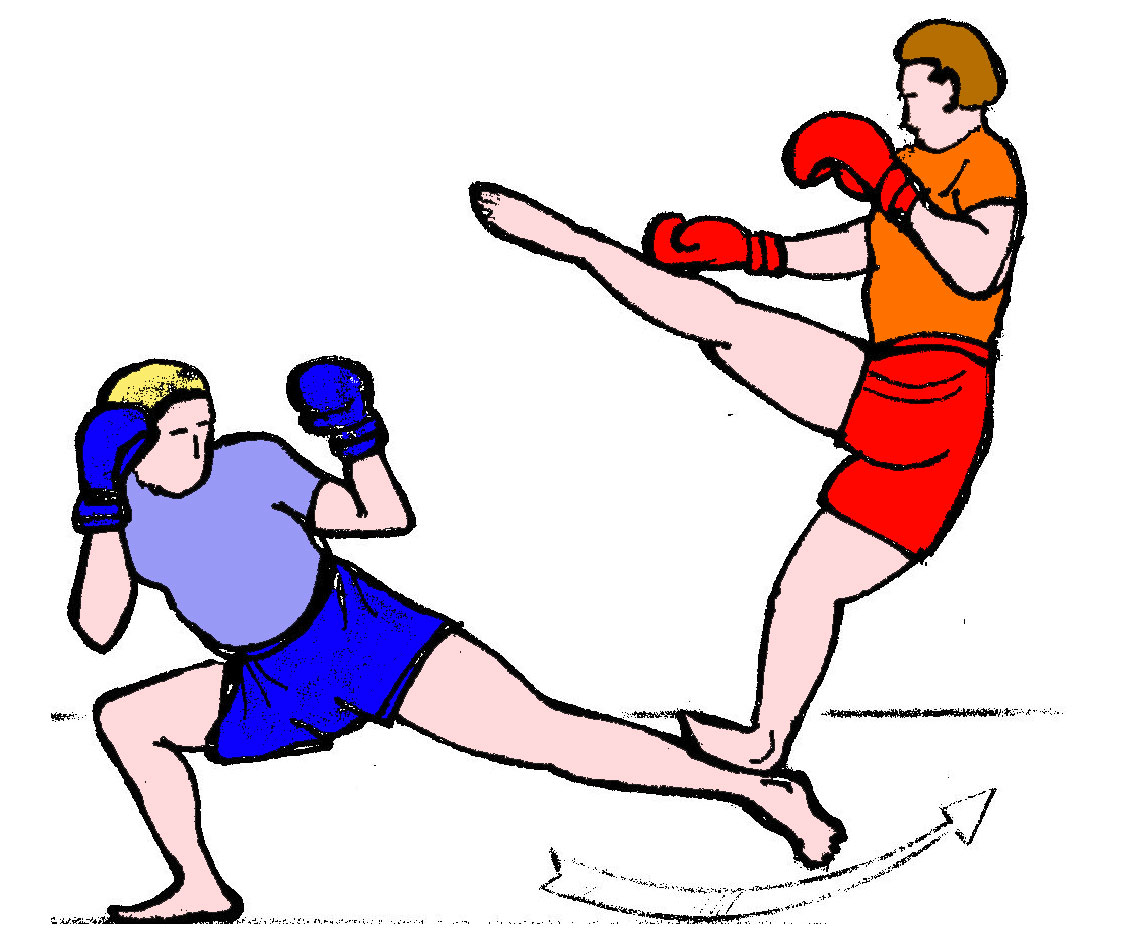 Sweeping